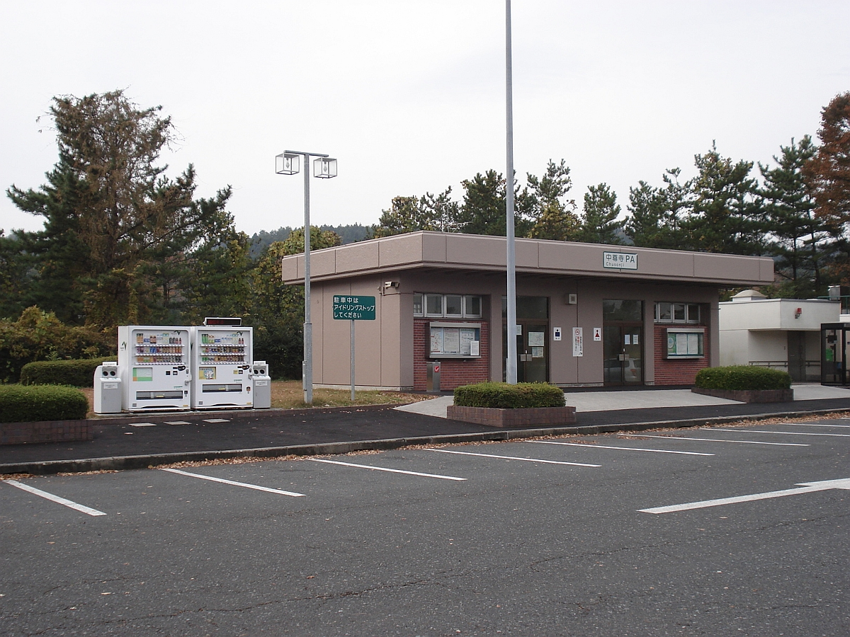 This rest area, Chusonji Parking Area（for Aomori）, is on Tohoku Expressway, in Hiraizumi town, Iwate Prefecture, Japan.